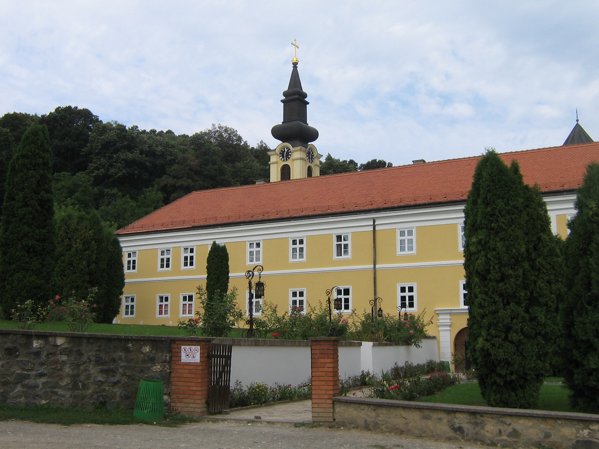 Novo Hopovo monastery, Serbia. Photo taken by me in August 2006.